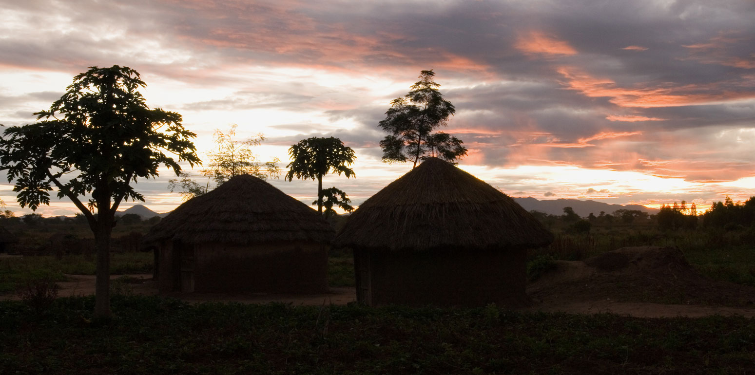 Early morning in Patongo